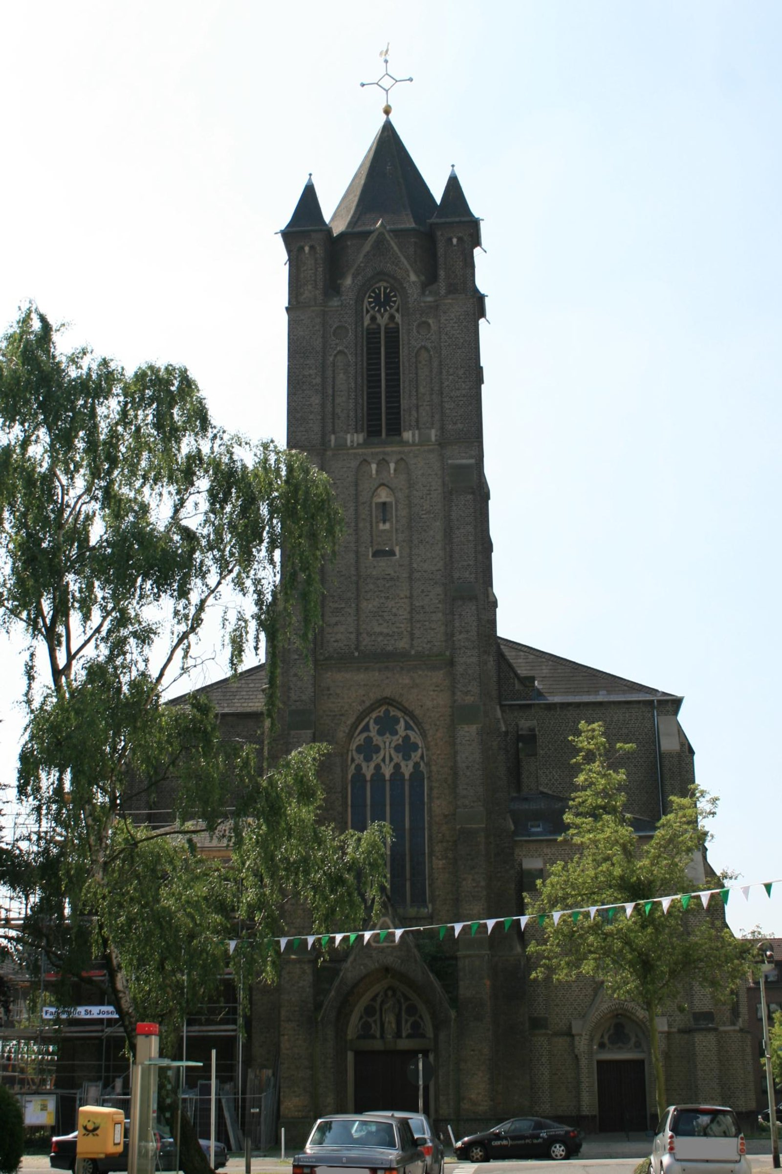 Cultural heritage monument No. R 033 in MönchengladbachThis is a photograph of an architectural monument. 033